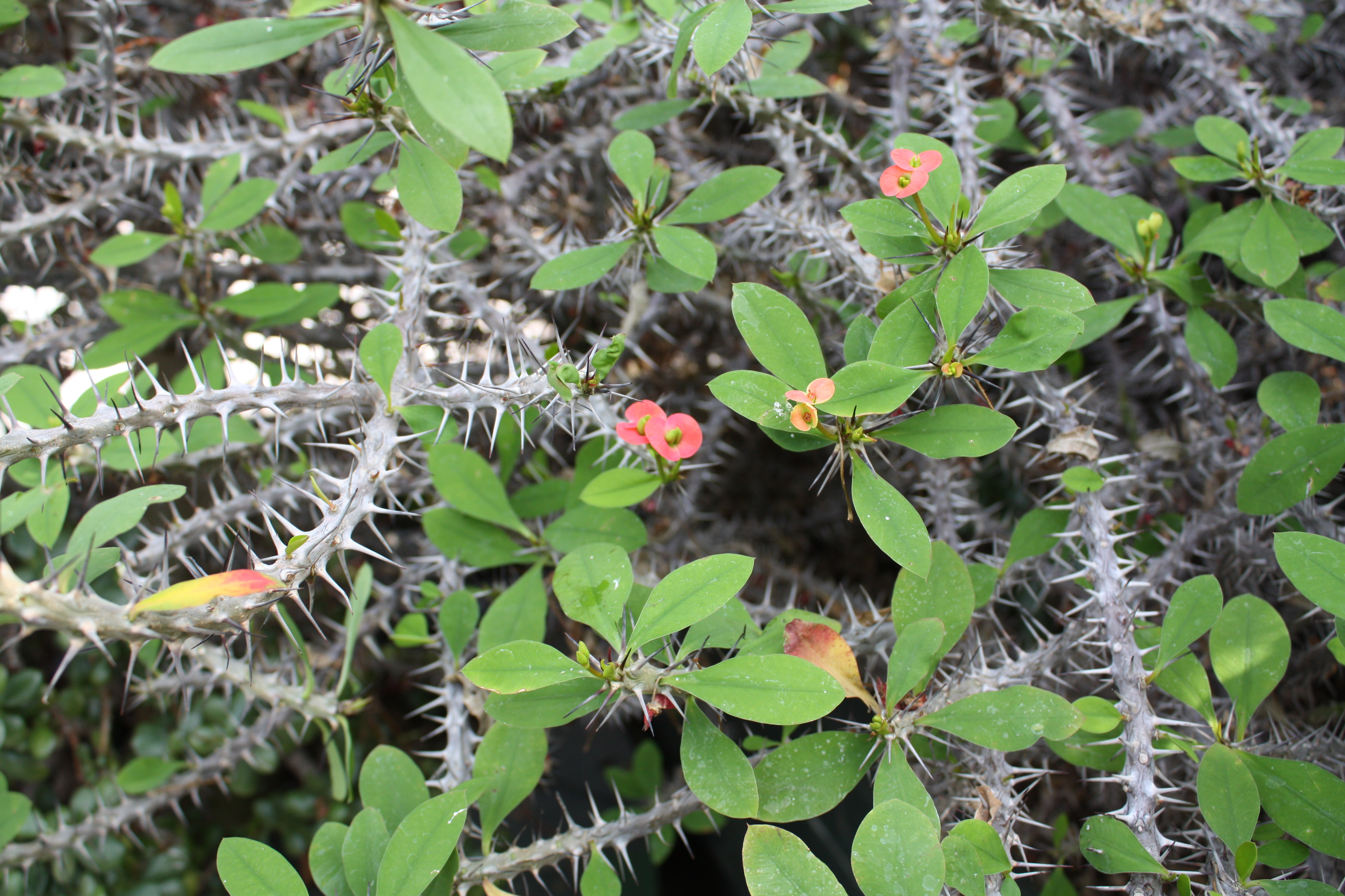 Euphorbia milii var. splendens in Helsinki City Winter Garden